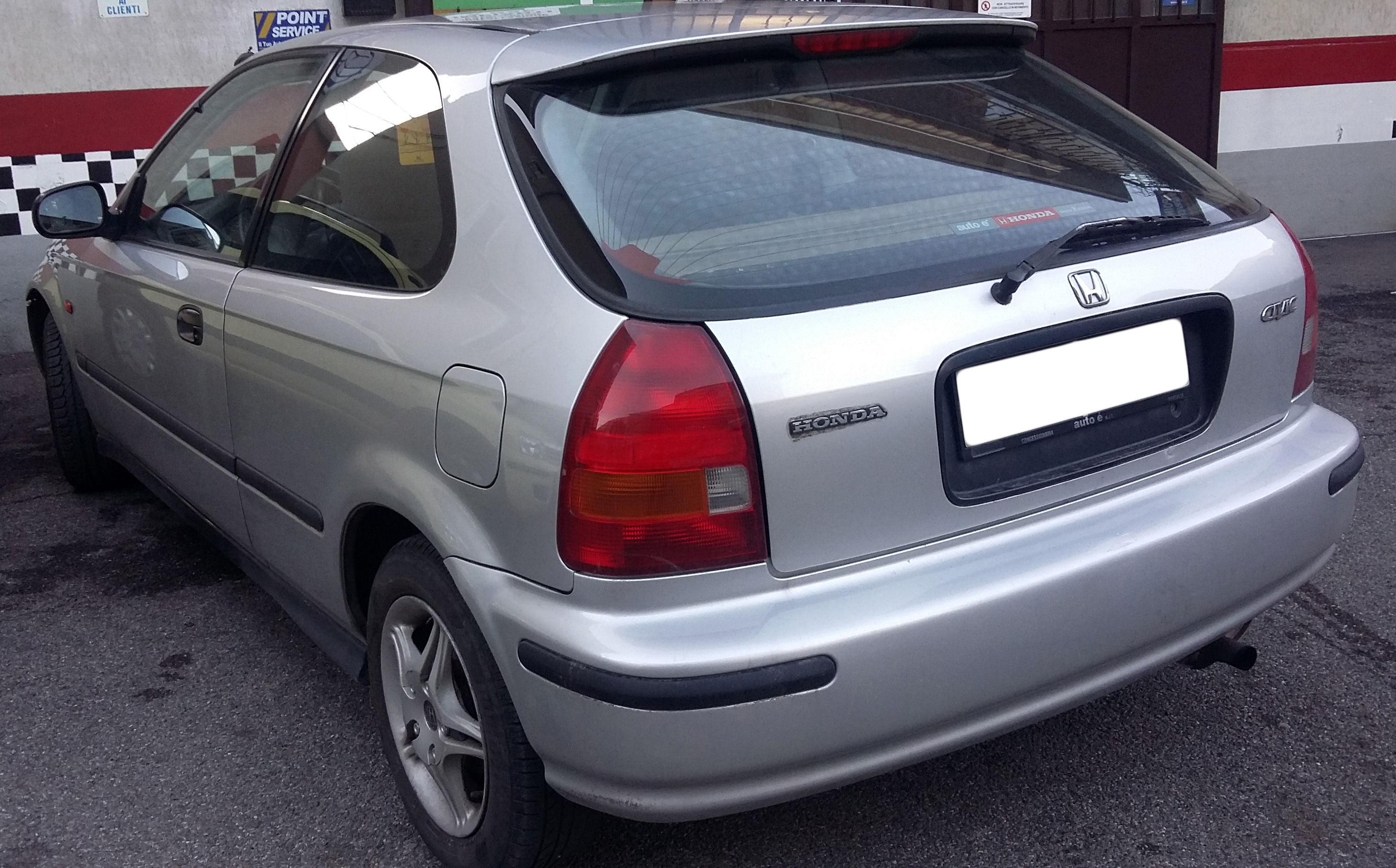 1995-2000 Honda Civic hatchback (Europe)